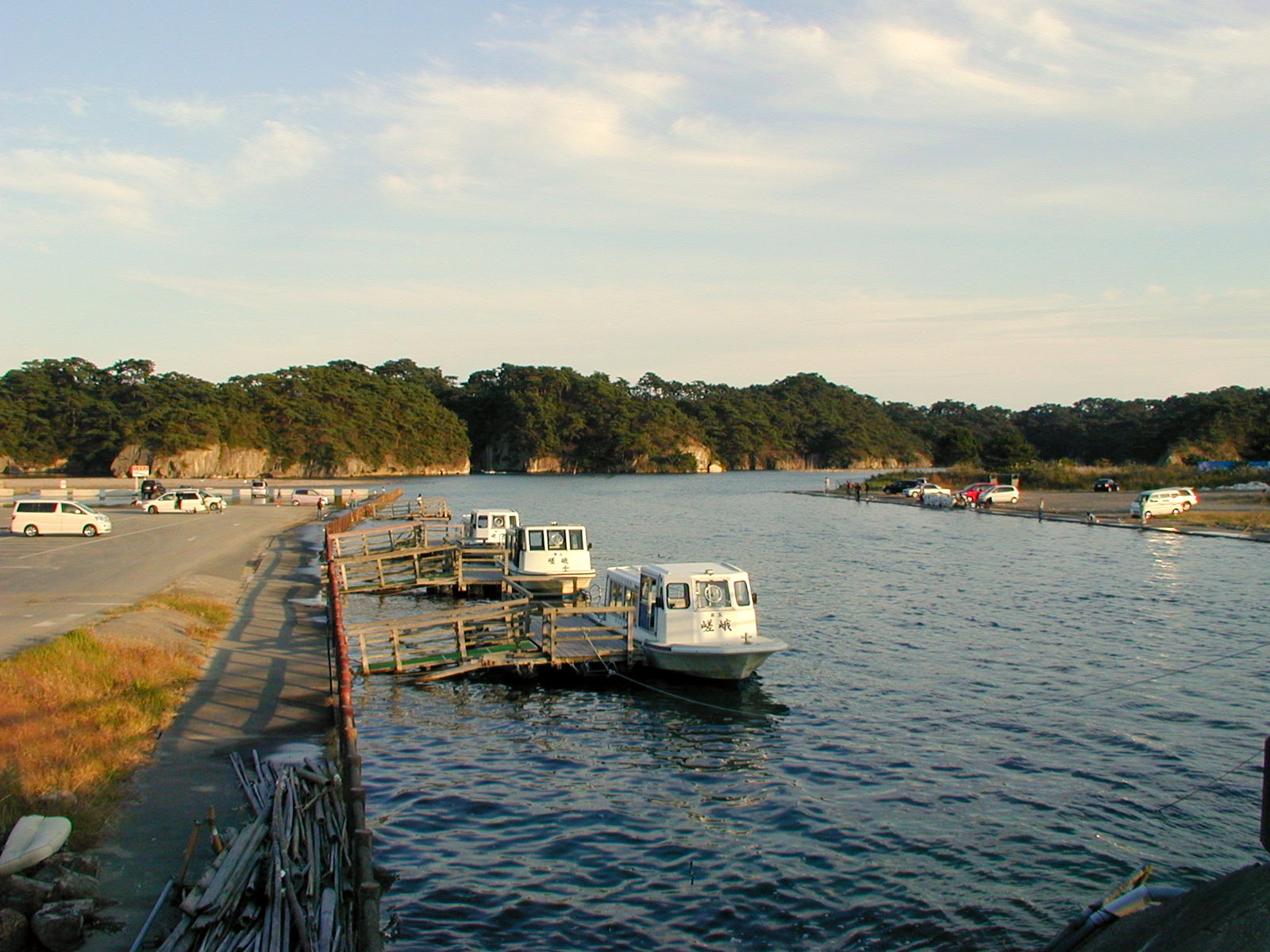 Katsugigaura-suidō channel between Nobiru beach and Miyato-jima island viewed from Matsugashima-bashi bridge